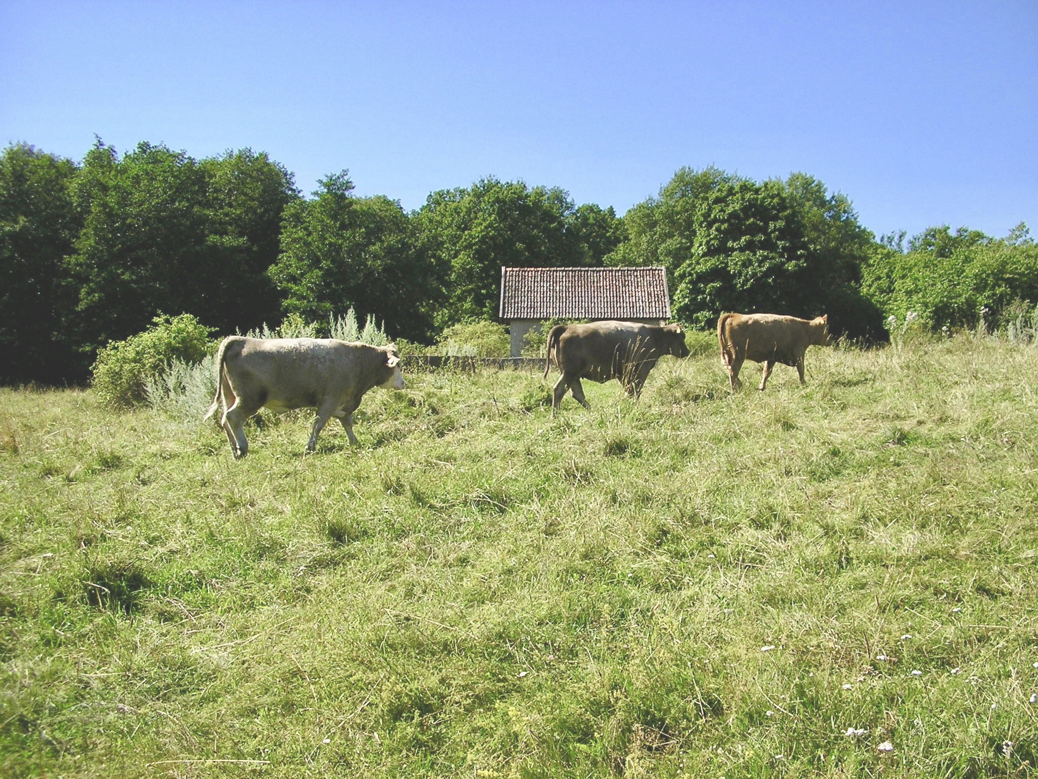 Ridön. Ridö-Sundbyholmsarkipelagen, nature reserve in Västmanland, Sweden